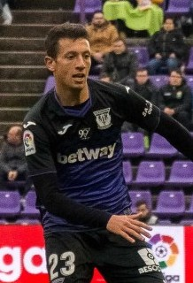 Real Valladolid - C. D. Leganés, 14th fixture of the 2018-19 La Liga, December 1, 2018.